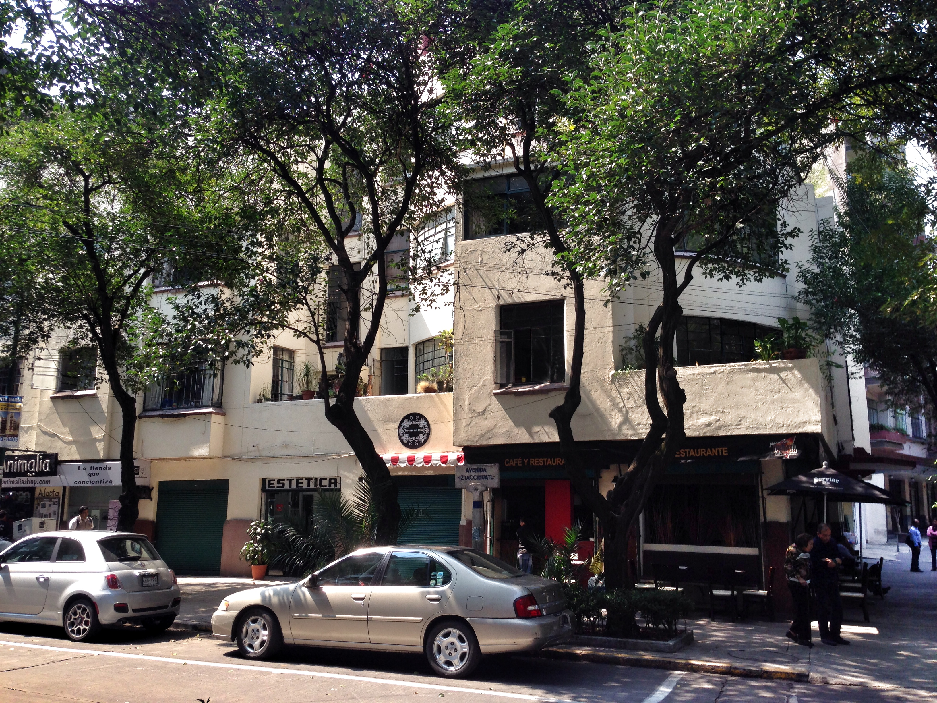 Edificio México (arch. Francisco J. Serrano), colonia Hipódromo, Condesa, Mexico City